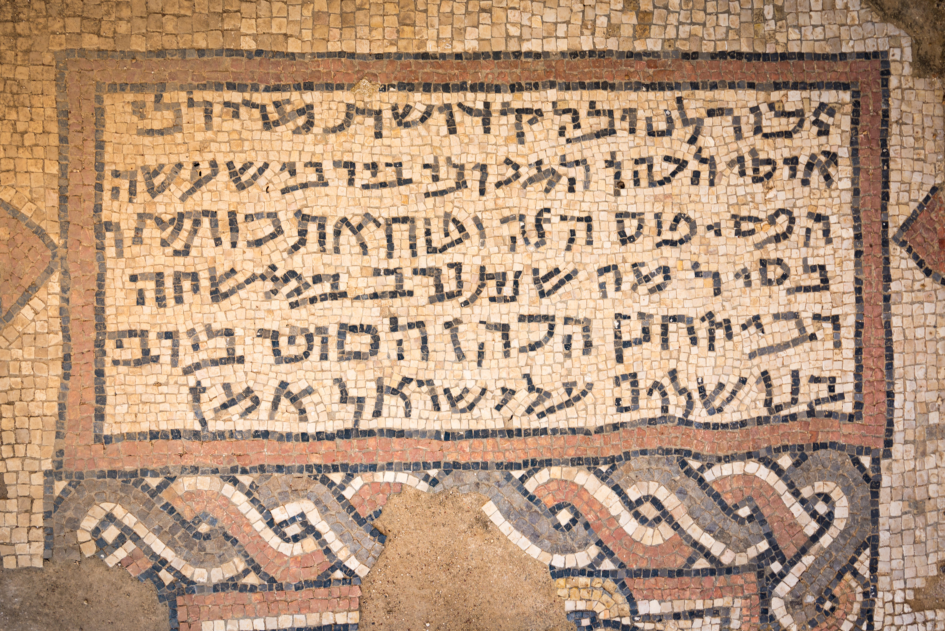 Photo of the mosaic floor at Susya, south of Hebron. Photo by Seth Aronstam. The mosaic reads: "May he be remembered for good, the holy one of my lord [and] my rabbi, the honorable Issi ha-Kohen the son of the Rabbi, who made this mosaic and plastered its walls with lime, how that he willingly contributed [of his fortune] in the supper of his son, Rabbi Yohanan ha-Kohen the scribe, the son of the Rabbi. May peace be upon Israel. Amen."